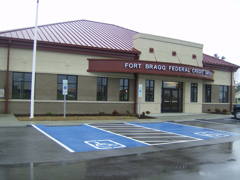 The Ramsey Street branch of Fort Bragg Federal Credit Union in Fayetteville, NC